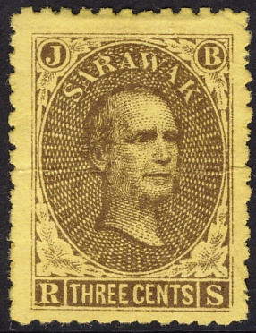 First Sarawak postage stamp, 1869, #1. Engraved and printed by Maclure, Macdonald and Co.